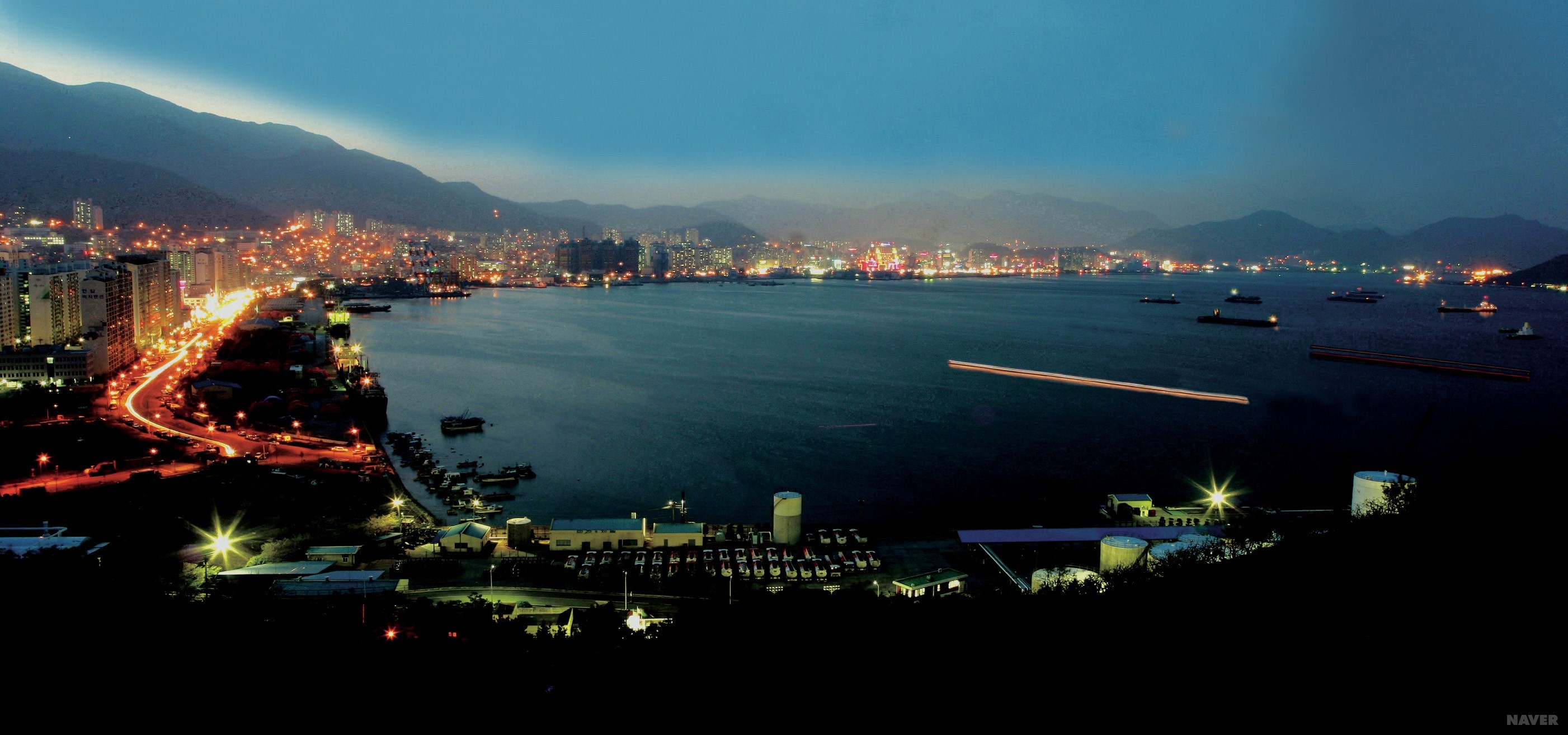 aerial view of Masan harbor